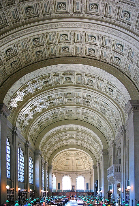 Bates Hall, Boston Public Library. Image copyright ©2005 by Daniel P. B. Smith and released under the terms of the GFDL.